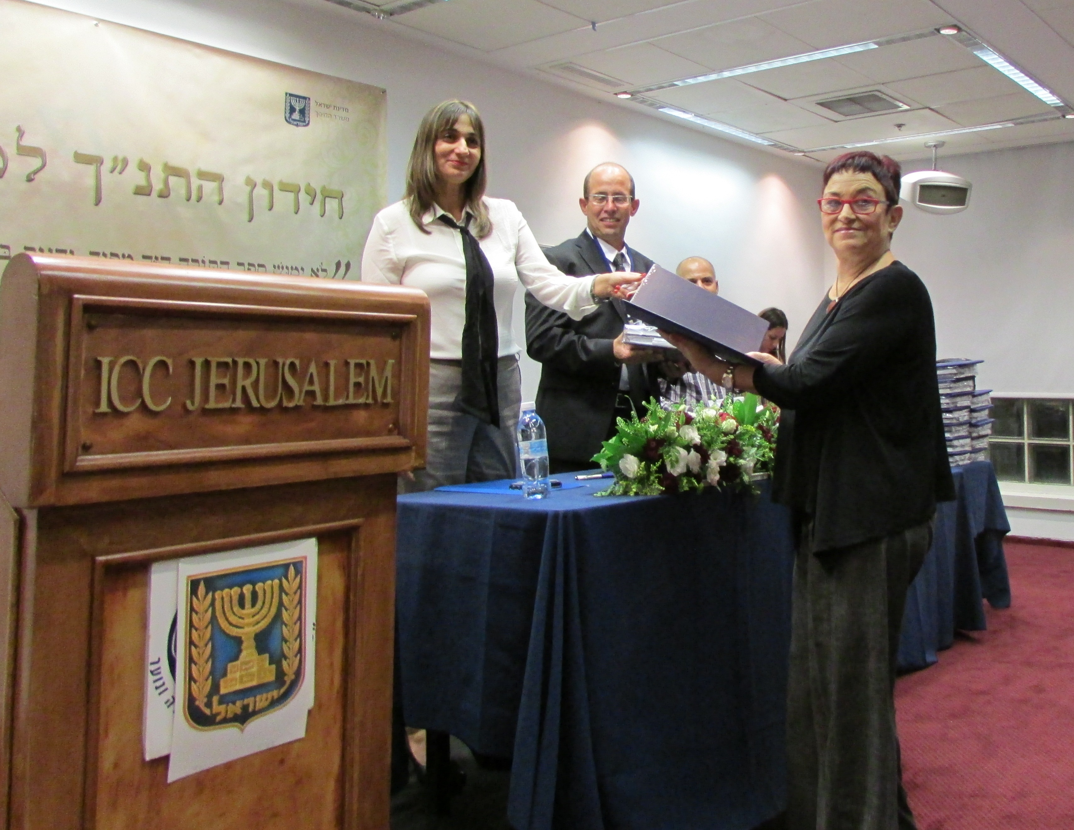 Prof. Yairah Amit receiving a gift from Michal Cohen, general manager of ministry of education, at 2013 Israel bible quiz